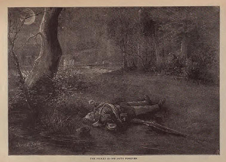 "The Picket is Off Duty Forever": James E. Taylor (1839-1901) illustration for poem "The Picket Guard" (All Quiet Along the Potomac") by Beers; in Graham, C.R. (ed.) Under Both Flags: A Panorama of the Great Civil War. Veteran Publishing Company, 1896